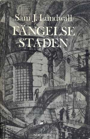 Book cover of the novel Fängelsestaden, showing Giovanni Battista Piranesis etching "Round Tower" from between 1749 and 1750